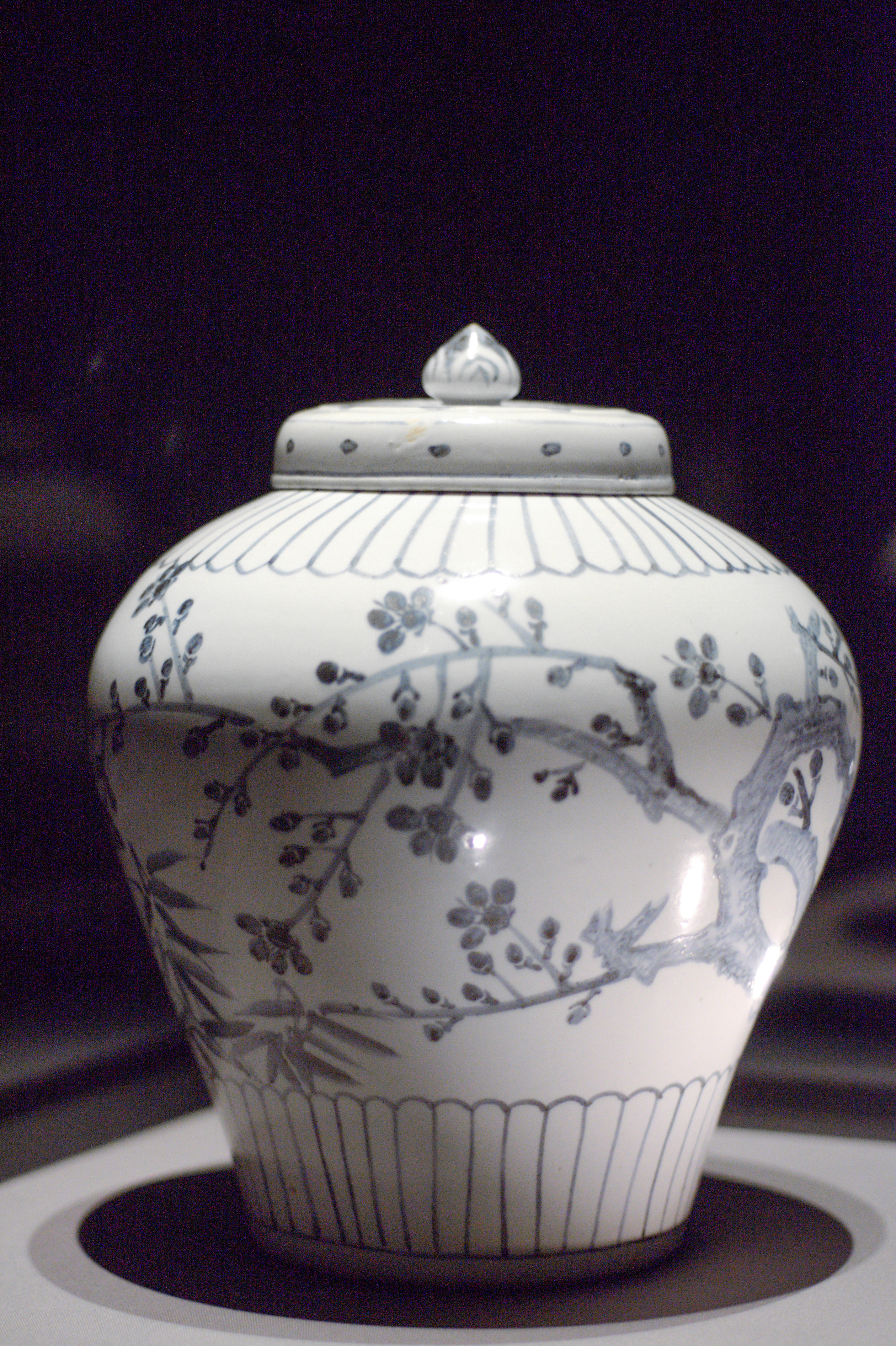 Joseon porcelain Lidded pot to draw pattern of plum blossom, and Bamboos wtith blue pigment